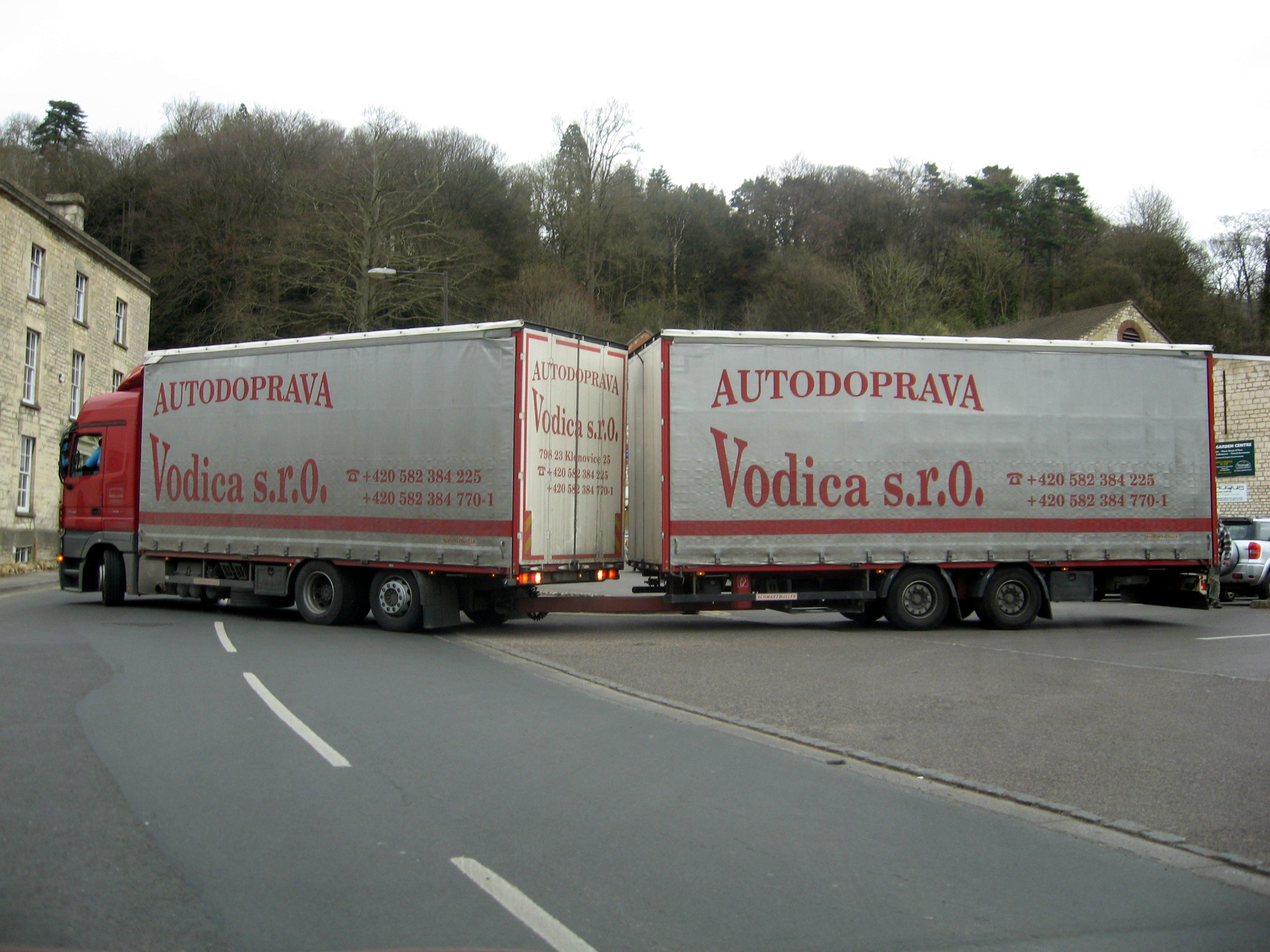 A close-coupled trailer operated by the Czech haulage company Autodoprava Tumpach